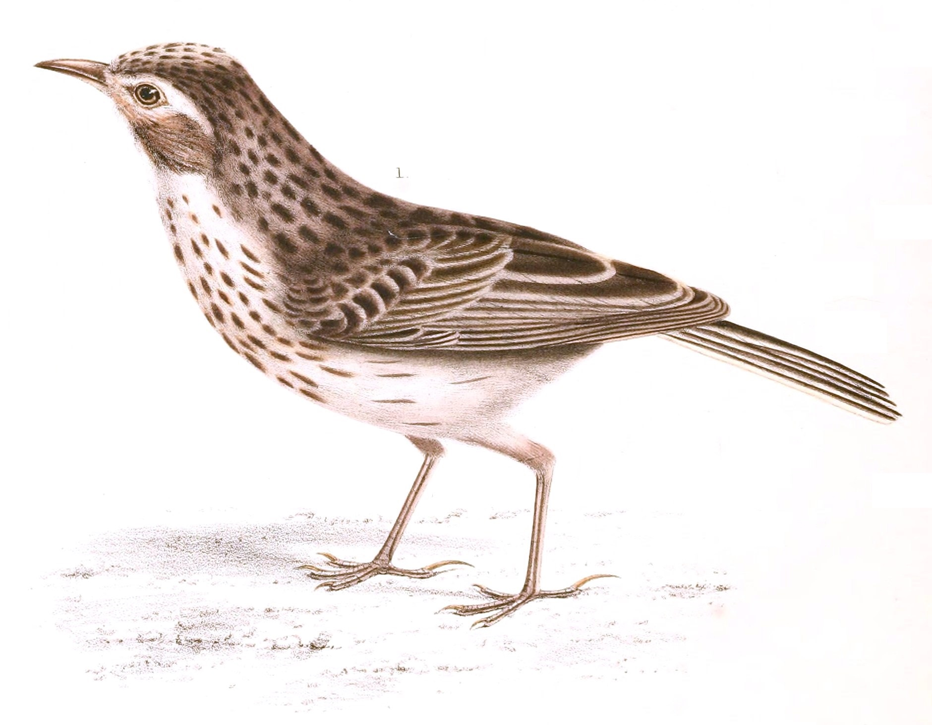 « Alauda codea » = Calendulauda albescens codea (subspecies of Karoo Lark) - female